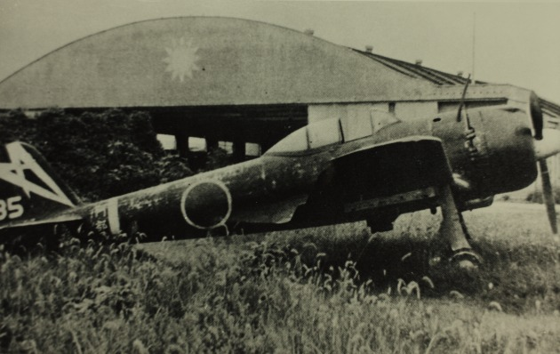 PictionID:6594928 - Catalog:01_00086175 - Title:Nakajima, Ki-43, Hayabusa 'Peregrine Falcon' Oscar 'Jim' Army Type 1 Fighter - Filename:01_00086175.TIF - Image from the Charles Daniels Photo Collection album "Seversky, Republic and P-47"----PLEASE TAG this image with any information you know about it, so that we can permanently store this data with the original image file in our Digital Asset Management System.----SOURCE INSTITUTION: San Diego Air and Space Museum Archive